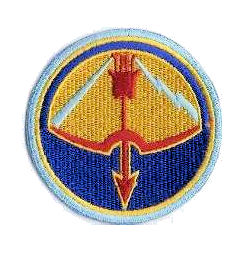 Emblem of the USAAF San Francisco Fighter Wing (World War II)